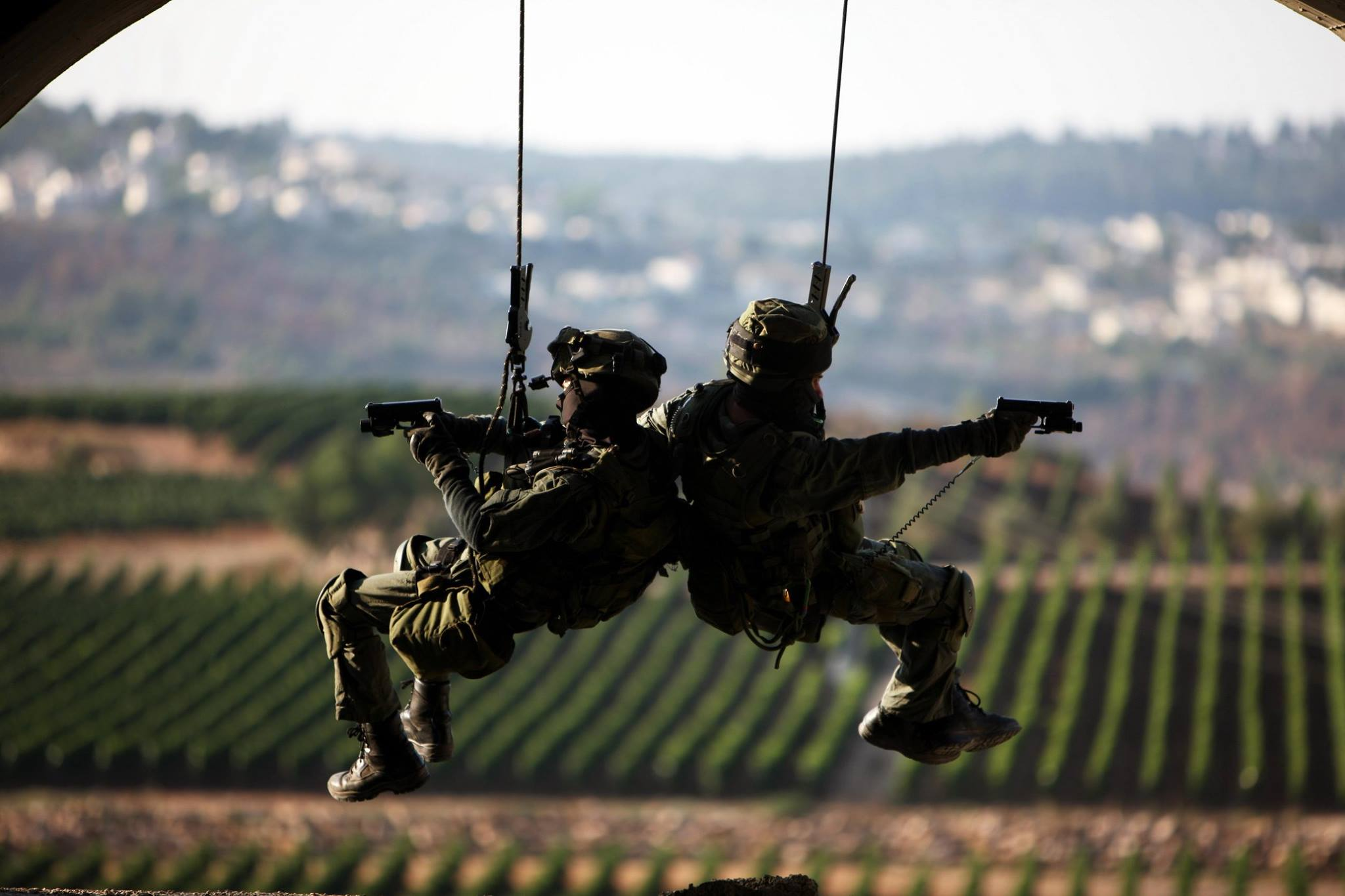 YAMAM - Israeli elite counter-terrorism unit